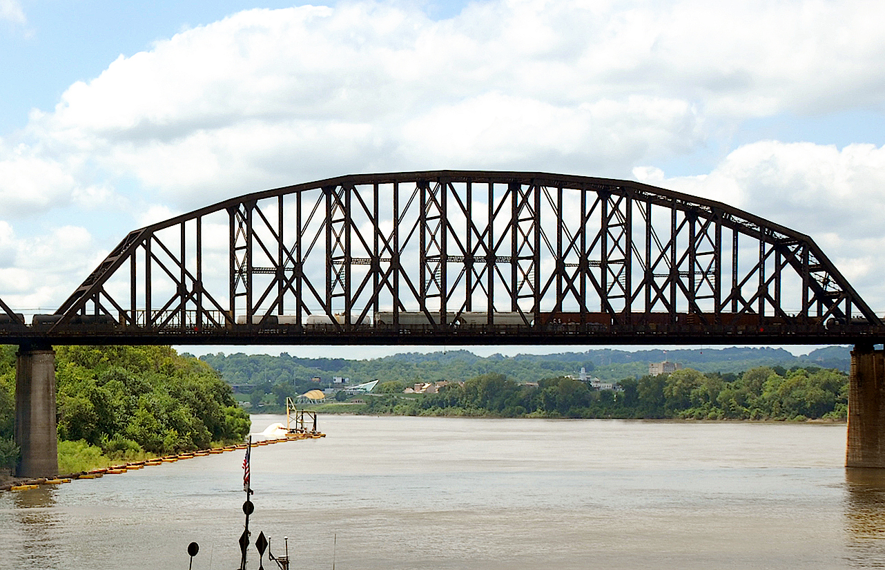 Orginal Description: Ohio River channel maintenance dredging began on July 22 at Louisville and was completed on July 25. The contractor's floating plant consisted of the Dredge Bill Holman, the Robert T, a shop barge, a spill barge and the floating pipeline section. Motor vessels Lenard and Buddy assisted. Both the upstream and downstream channel at McAlpine Locks were successfully dredged which maintains the required nine-foot navigable channel. Tows with barges need at least nine feet of depth to lock through to subsequent pools on the Ohio River. The dredging was a 24/7 operation. During dredging, material is churned up from the river bottom and ran through a floating pipeline. It then reaches equipment that deposits the sand, silt and other material near and on the shoreline. In the foreground of the picture is the dredge operation. In the background is the material being discharged. The second picture illustrates the dredged material.